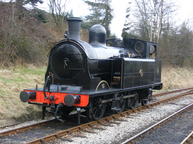 "Taff Vale" 0-6-2T No. 85 at Oxenhope,... ...about to reverse prior to connecting to the rear of the train for the return journey to Keighley